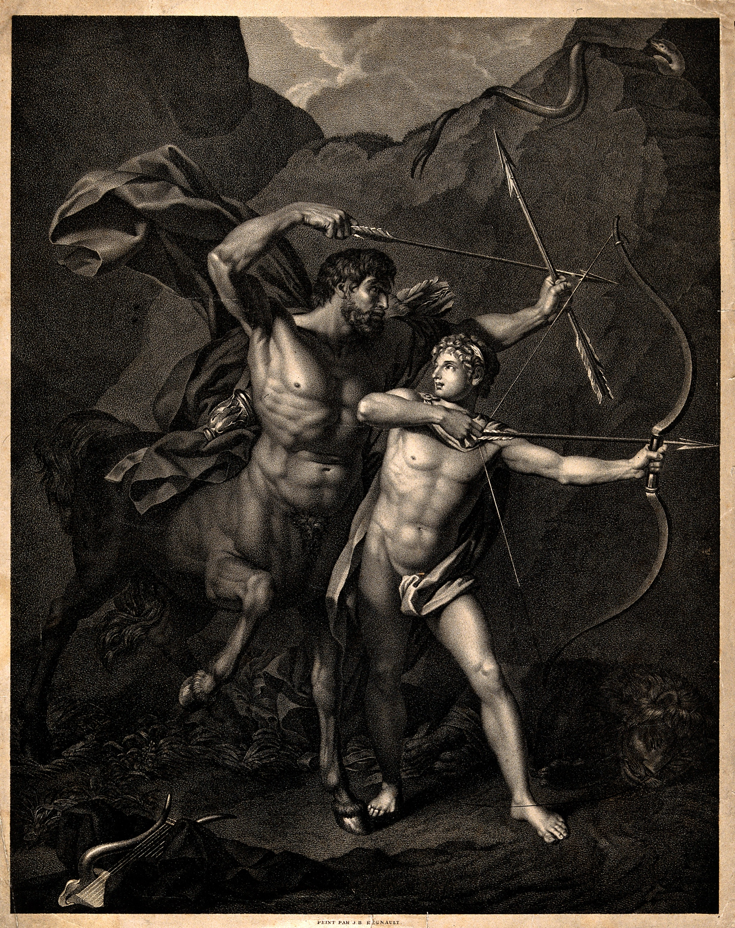 Chiron and Achilles. Lithograph after J.B. Regnault. Iconographic Collections Keywords: achilles; chiron